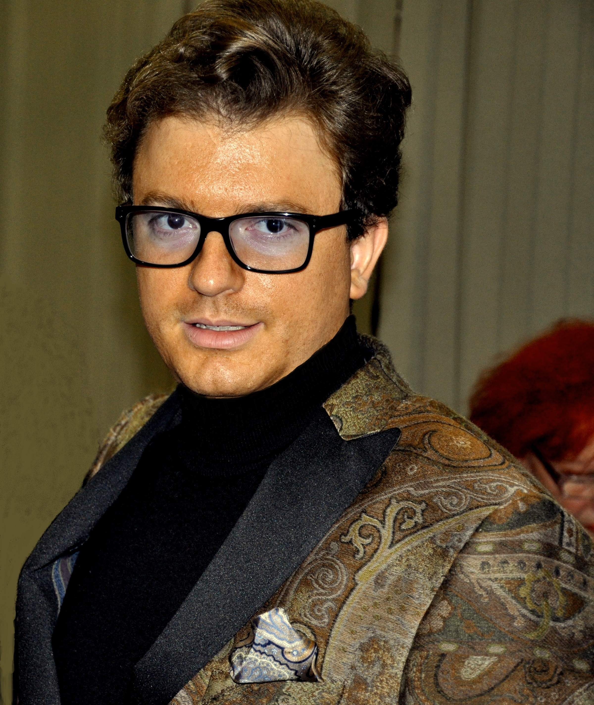 The italian art critic, historian and writer Daniele Radini Tedeschi